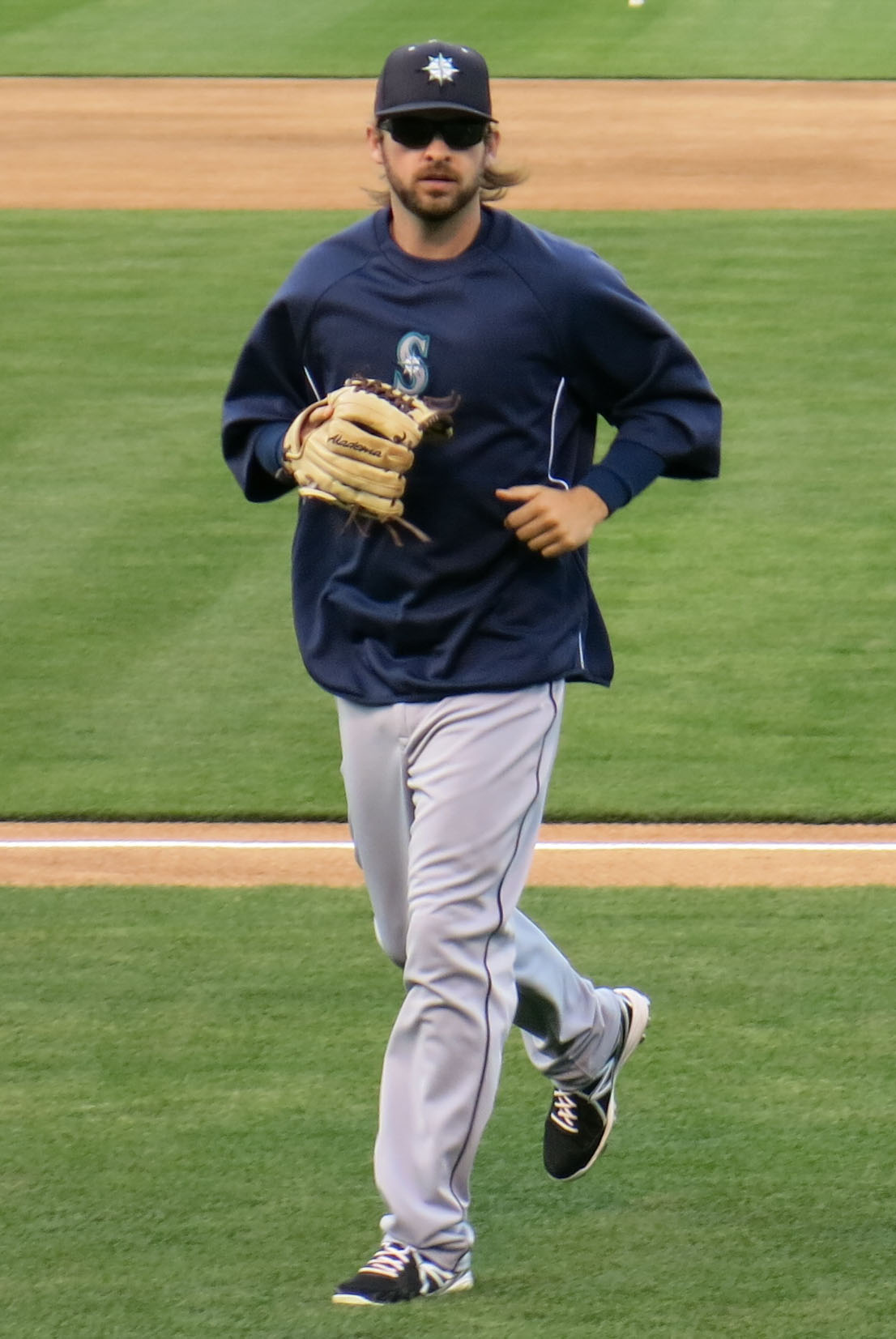 Seattle Mariners relief pitcher Lucas Luetge